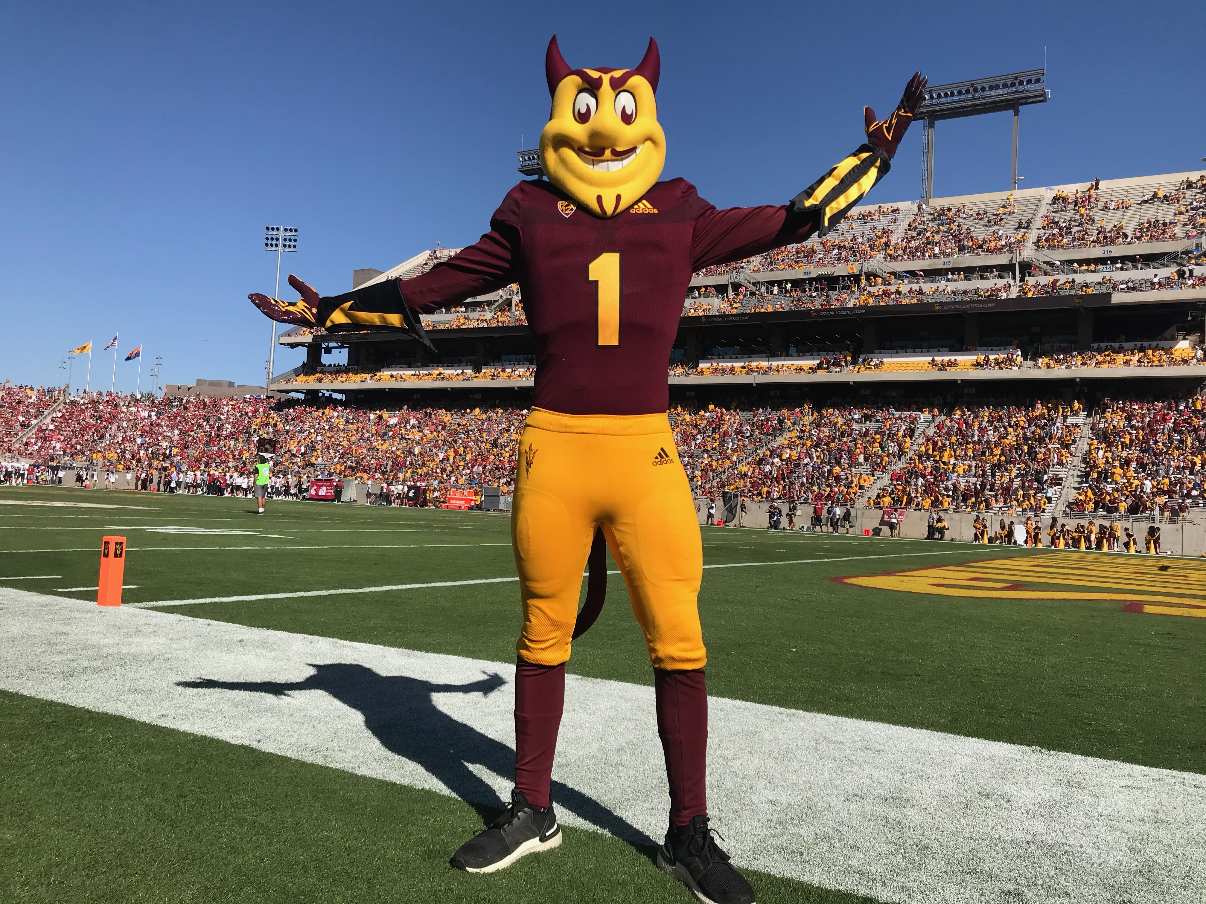 Sparky the Sun Devil is on the sideline of an ASU football game in 2019.